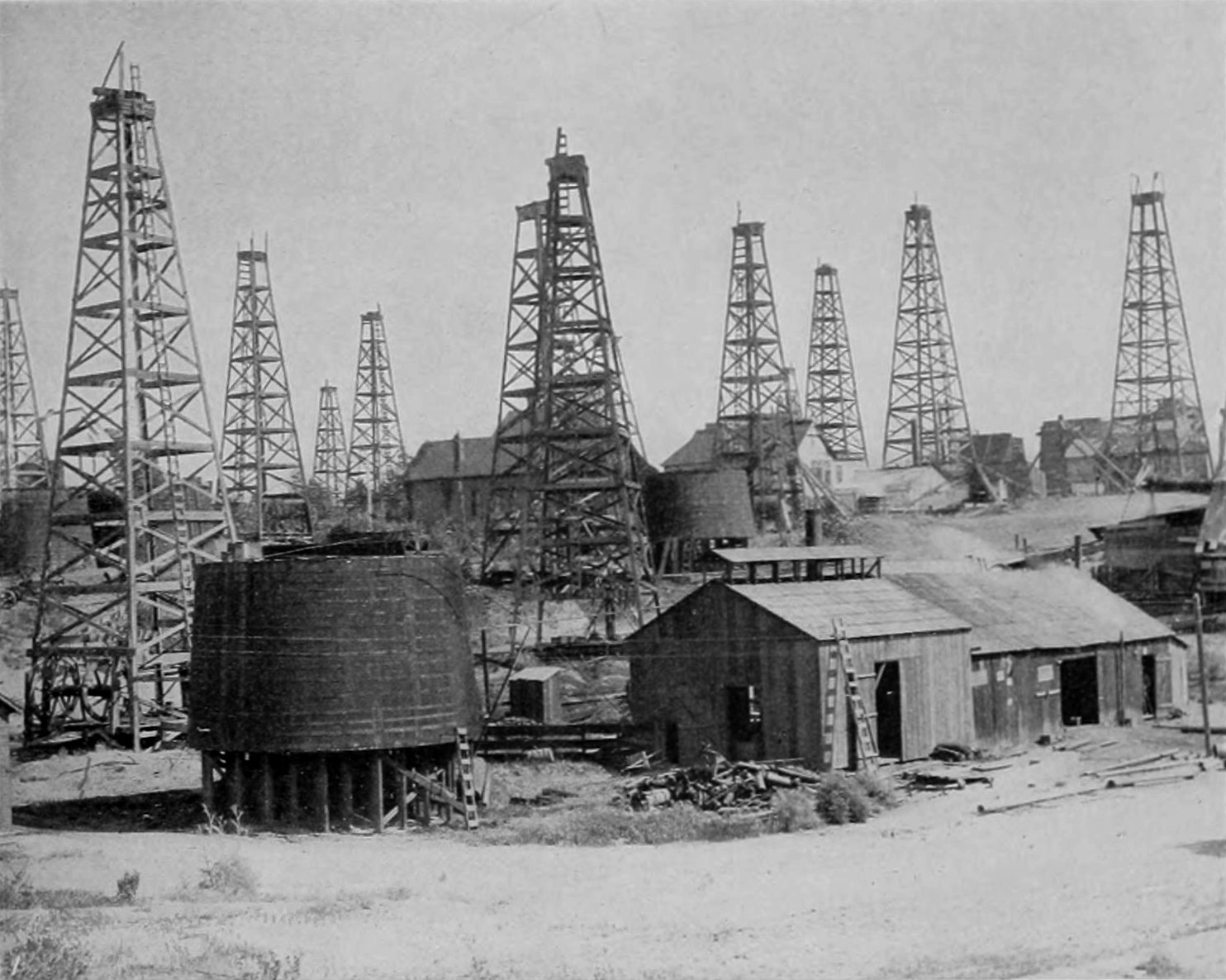 Oil wells at Los Angeles, California.